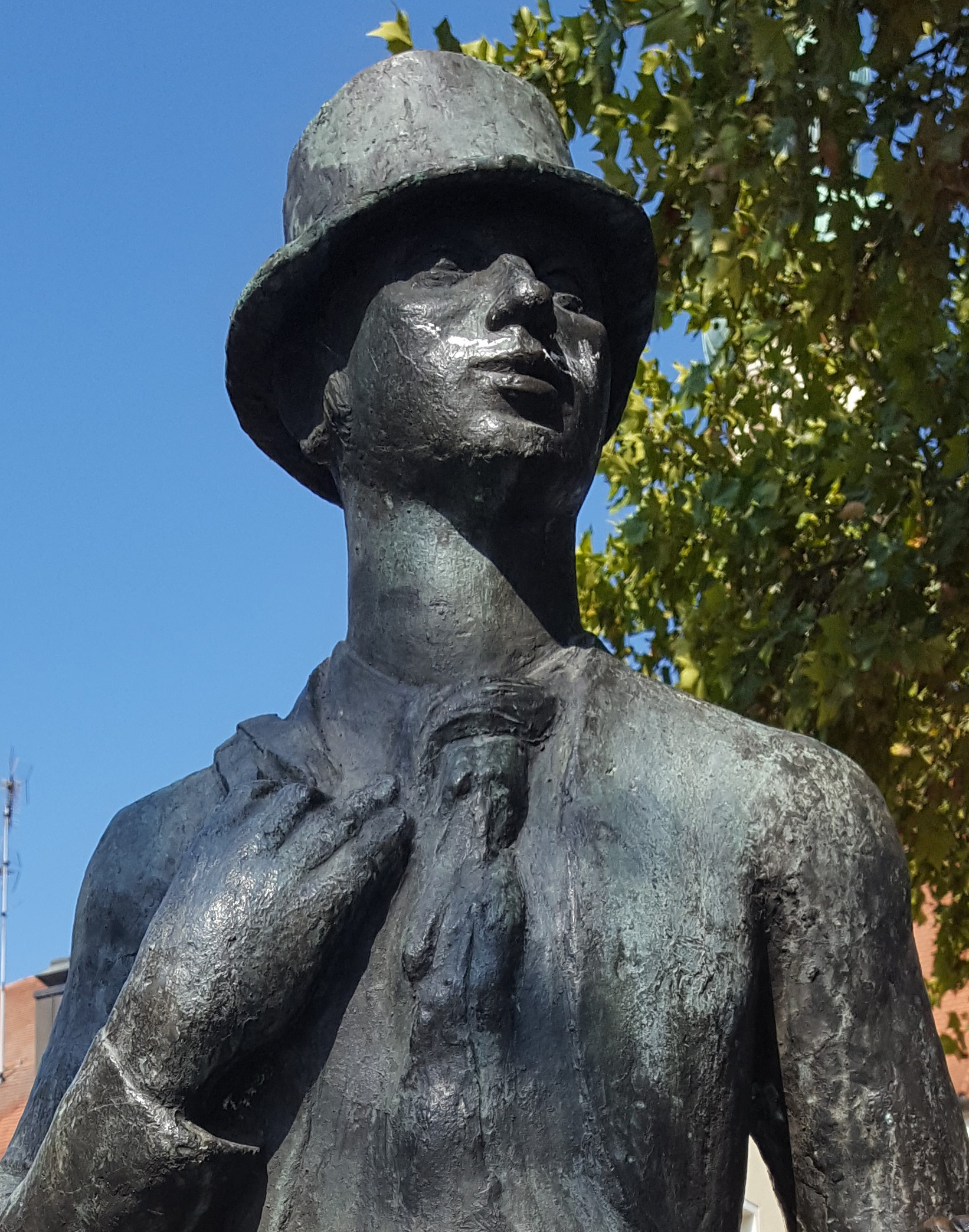 Sgraffito on the north facade of the Jugendhaus at Vogelauweg 51, Straubing. Text at the top of the sgraffito: You who emerge from the flood in which we are lost, are remembered, when you speak of our weaknesses, even the darker time, that you escaped from. Quote from: Bertolt Brecht, To the Afterborn